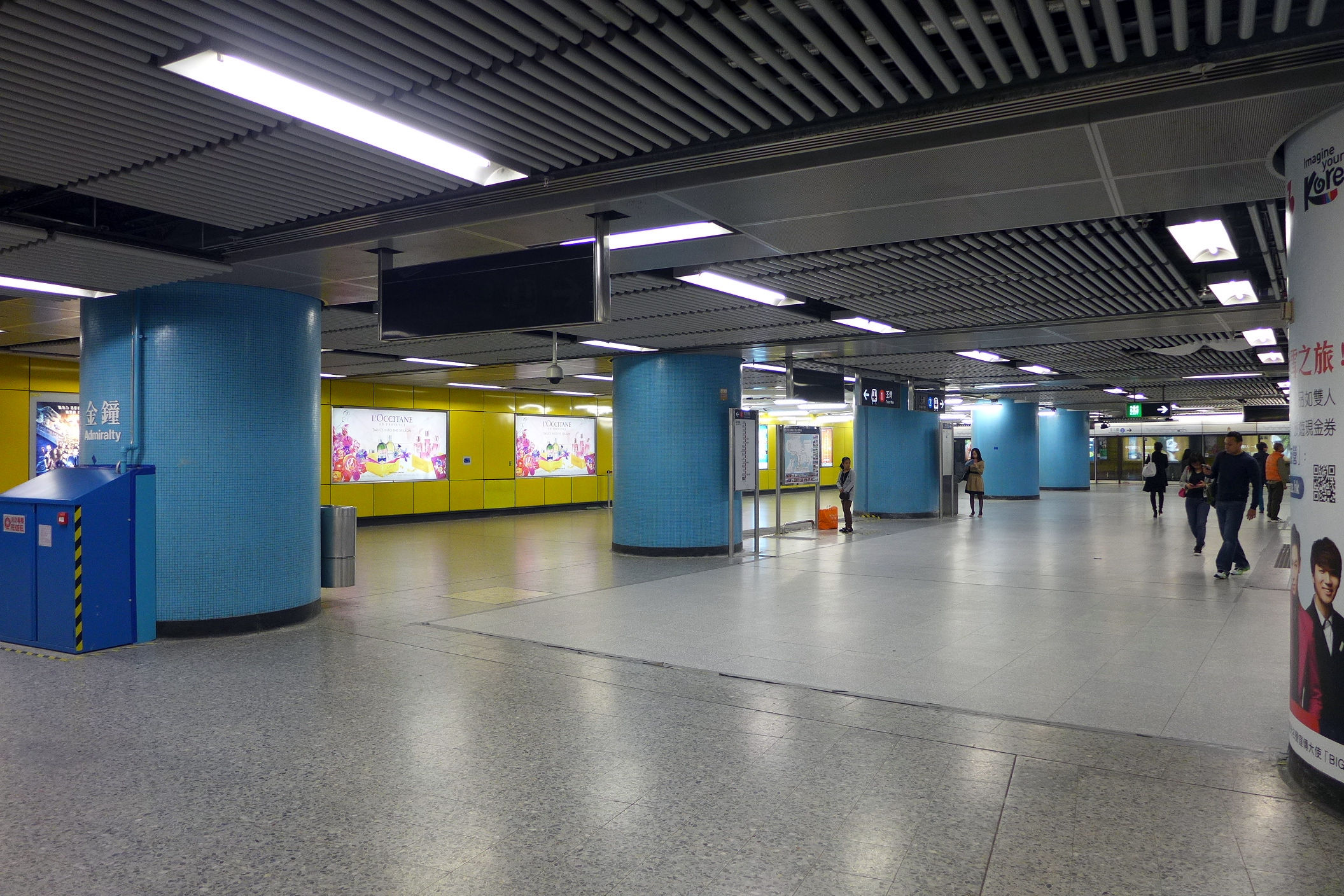 Admiralty Station Platform acces